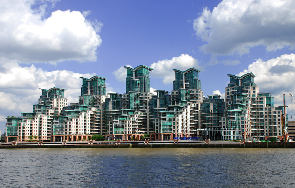 St George’s Wharf, Vauxhall, South London. Architects: Broadway Malyan Architects